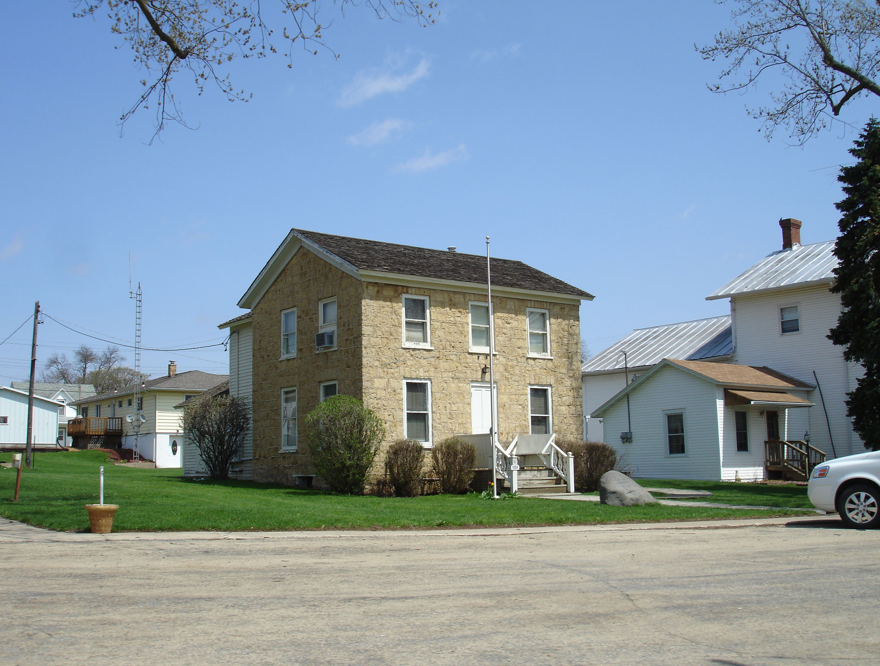 William Allan House, a part of the Scales Mound Historic District in Scales Mound, Illinois. Listed on the U.S. National Register of Historic Places.